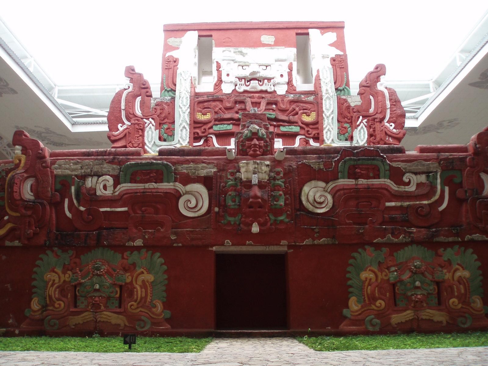 Rosalila Temple's replica in the Maya Sculpture Museum at Copán (Honduras)